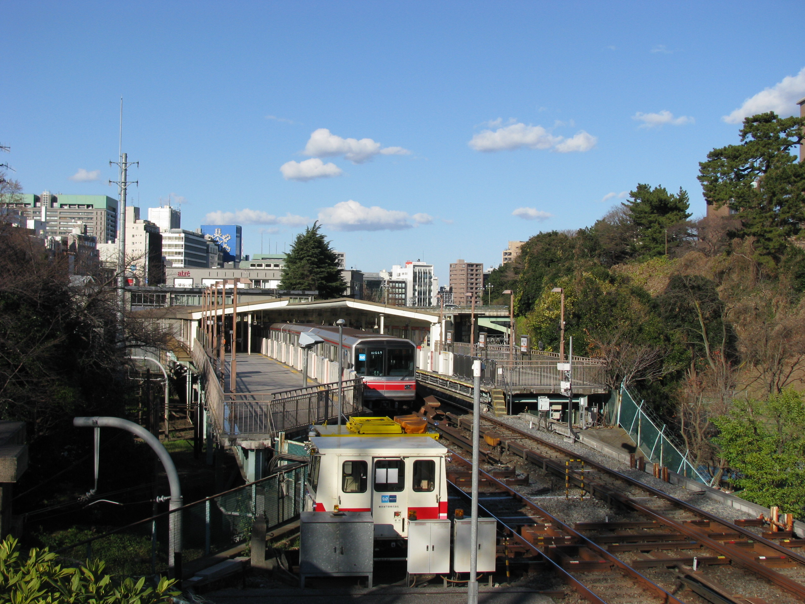 Yotsuya Station on the Tokyo Metro Marunouchi Line in Tokyo